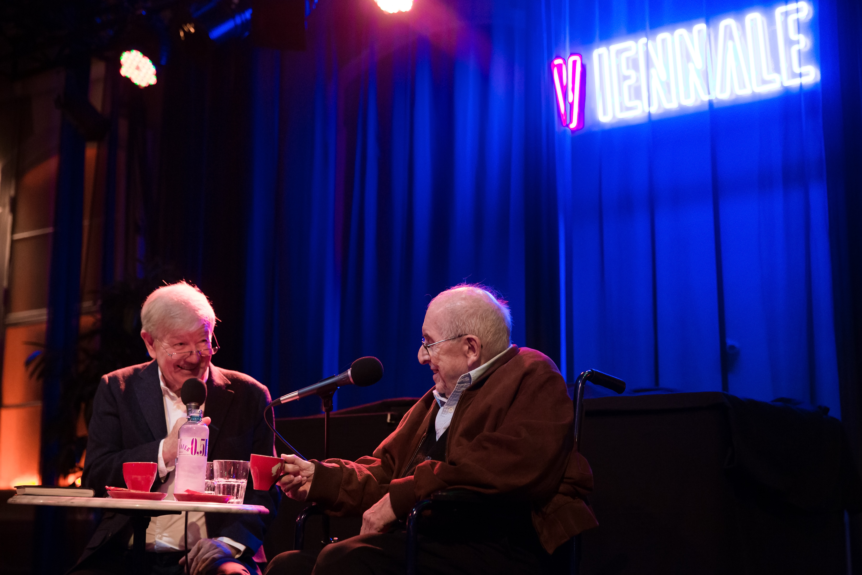 Eric Pleskow (r.) and Armin Thurnher at Vienna International Film Festival 2015 in Vienna, Austria.